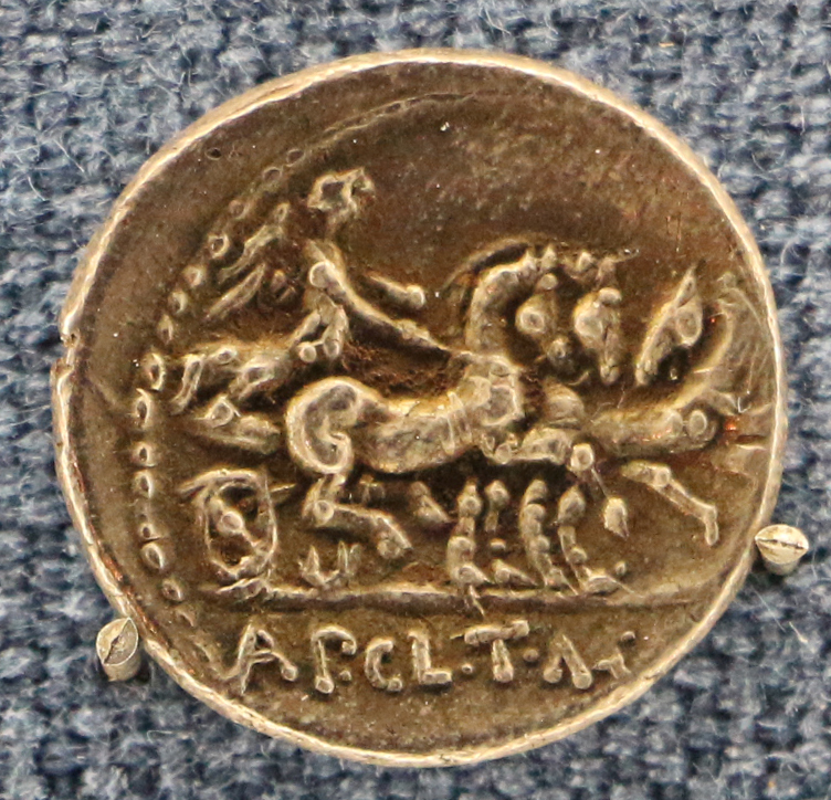 Ancient Roman coins in Palazzo Blu (Pisa)